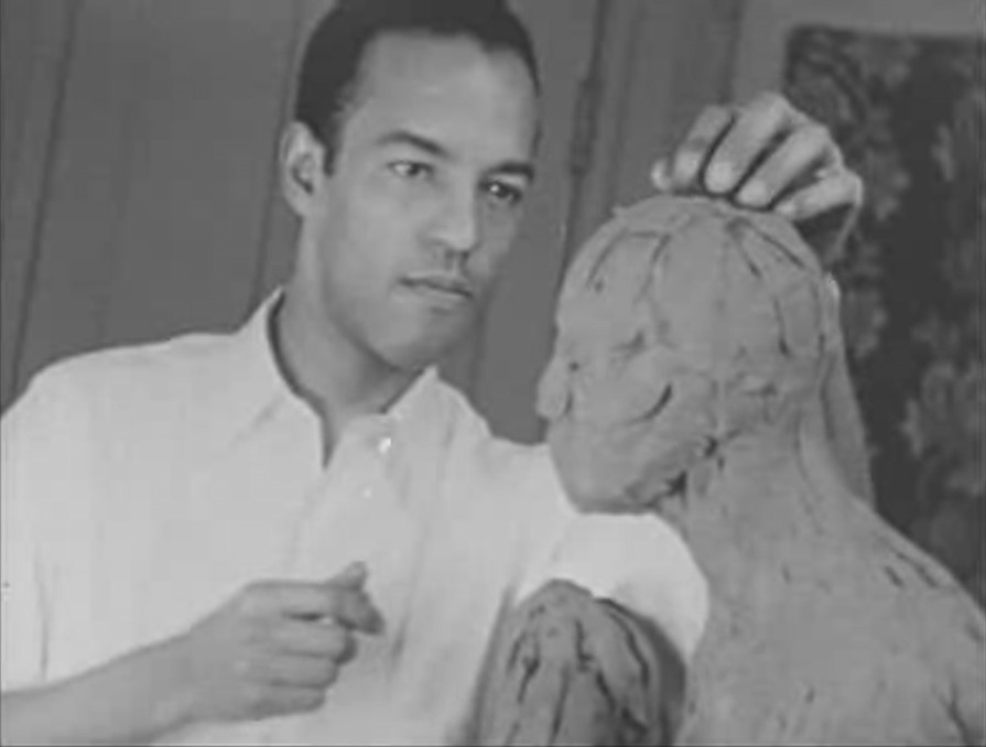 Richmond Barthé at work in his studio in Harlem in the 1920s/1930s.